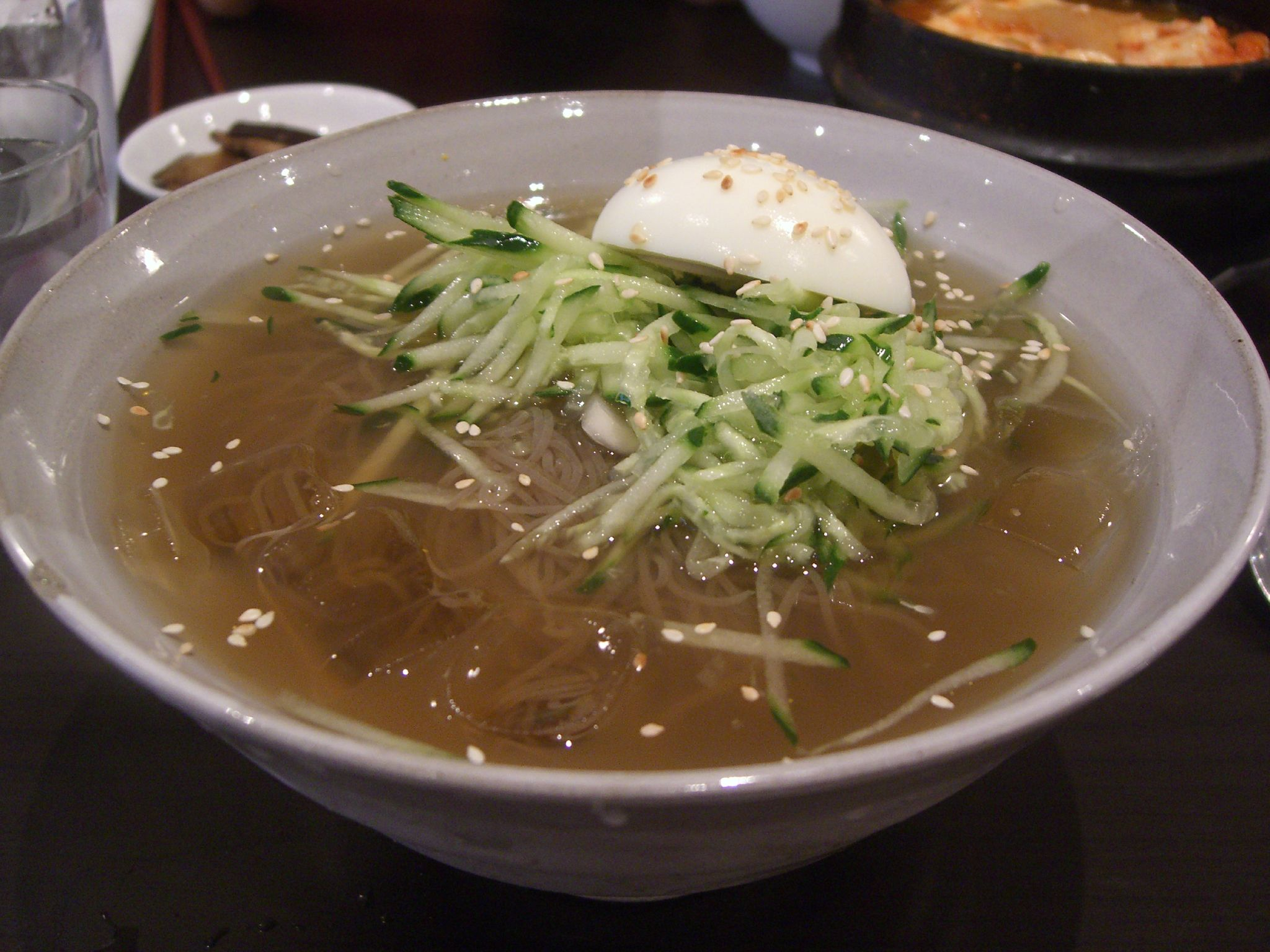 Mul naengmyeon (cold noodle soup) in Korean cuisine